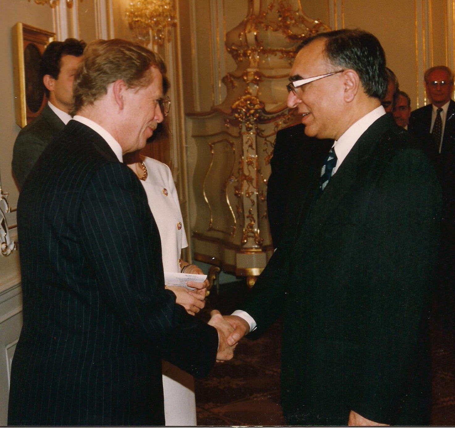 Tanvir Ahmad Khan with Vaclav Havel